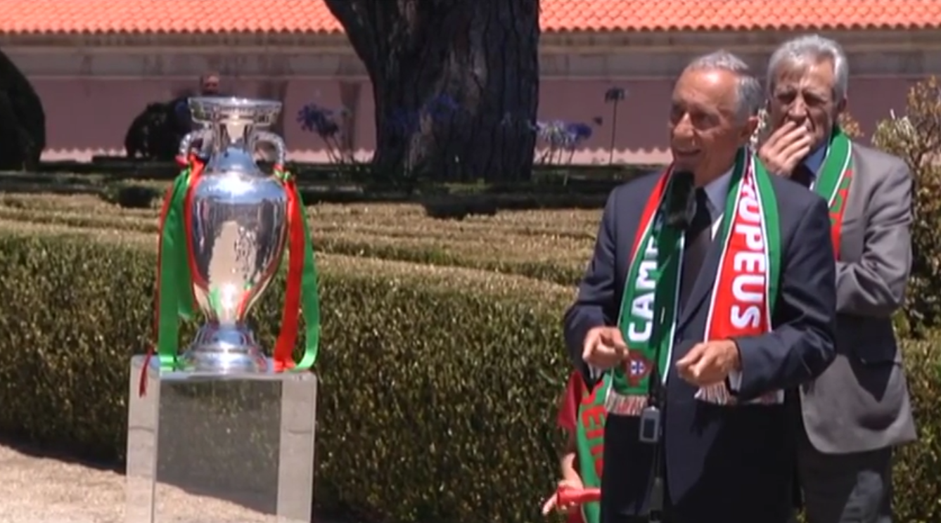 The President of the Portuguese Republic, Marcelo Rebelo de Sousa, greets the Portuguese national football team after having won the 2016 UEFA European Championship, shortly before bestowing them with their Charters of Commanders of the Order of Merit.